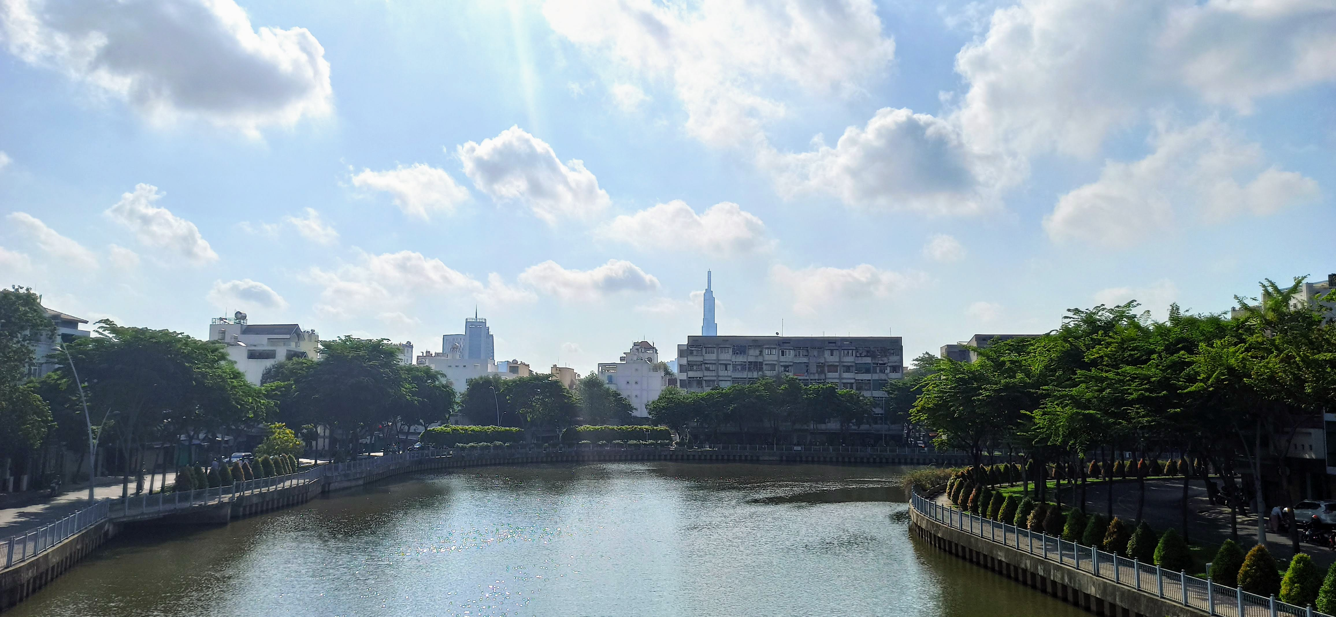 Nhieu Loc - Thi Nghe Canal in 2020 from Hoang Hoa Tham BridgeTiếng Việt: Kênh Nhiêu Lộc - Thị Nghè năm 2020 từ cầu Hoàng Hoa Thám